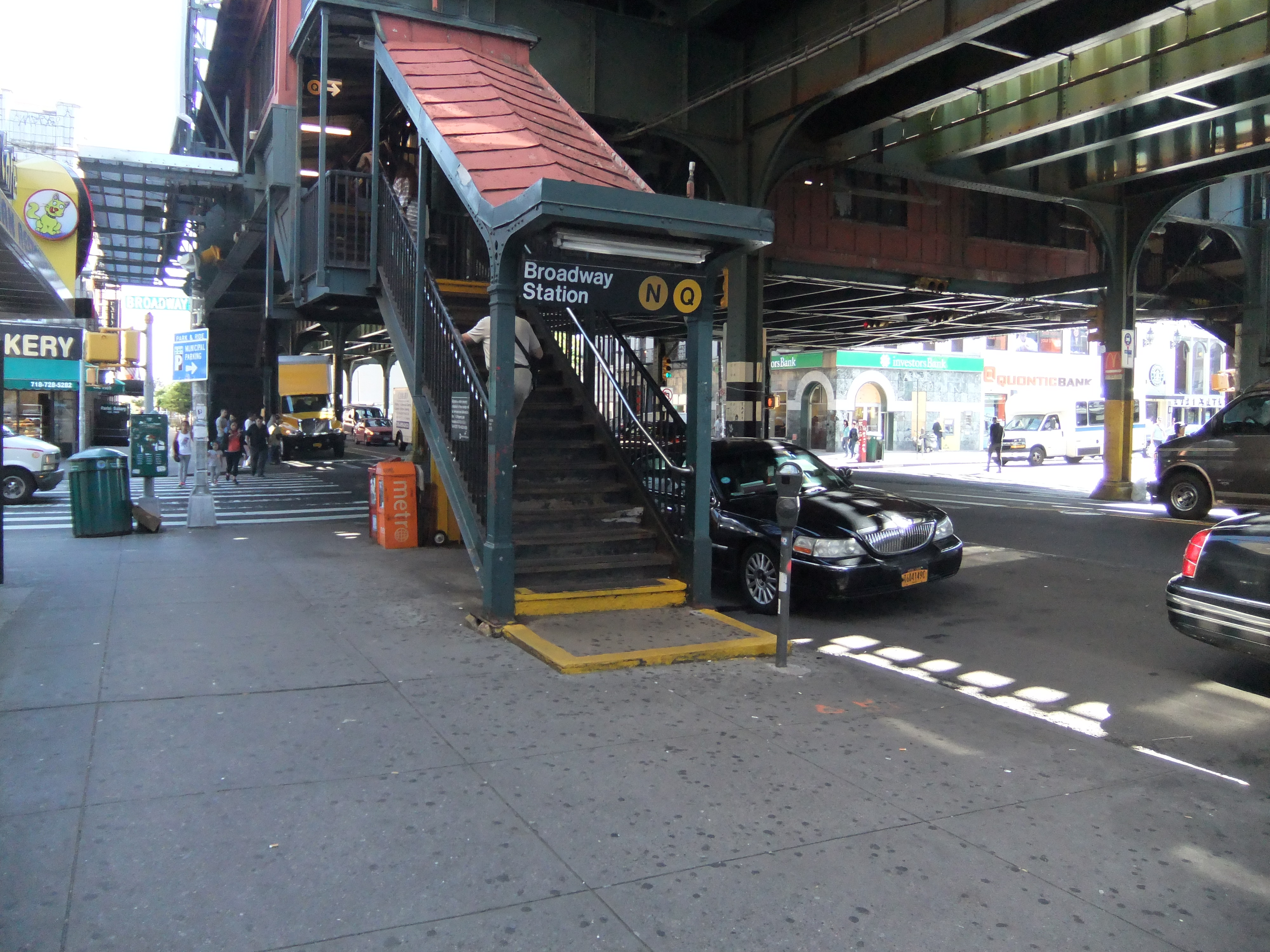 Stair at Broadway and 31st Street to the Astoria Line station.